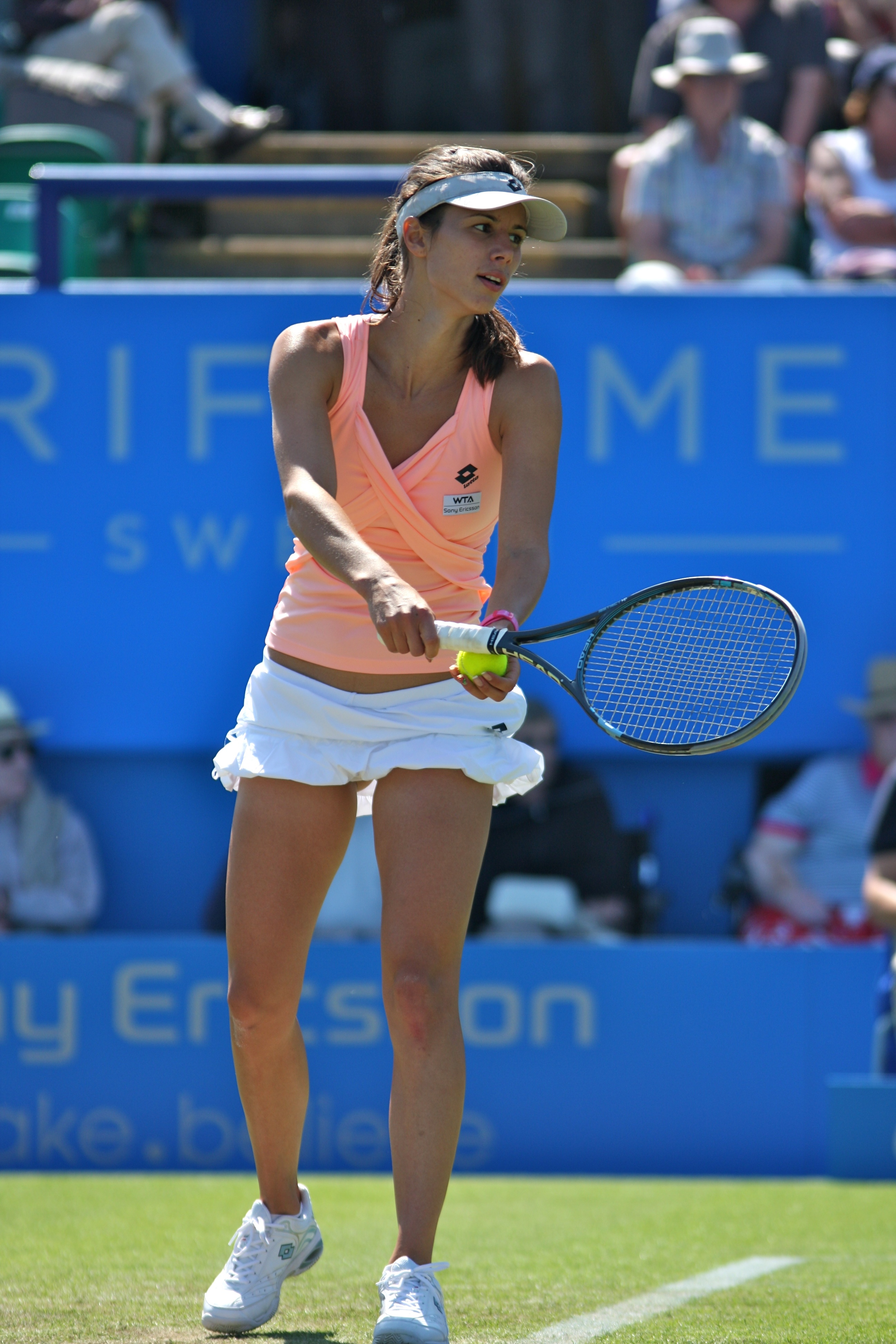 Bulgarian tennis player Tsvetana Pironkova at 2011 AEGON International.